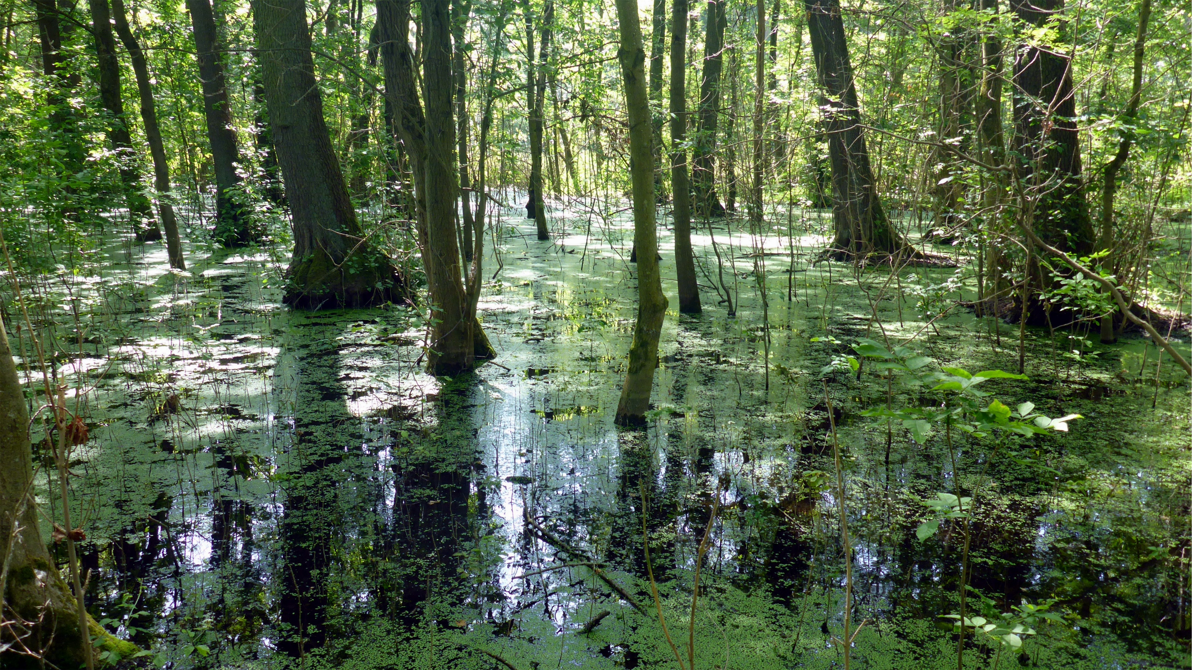 Naturschutzgebiet „Weingartener Moor-Bruchwald Grötzingen“ is a nature reserve in Baden-Württemberg, Germany.